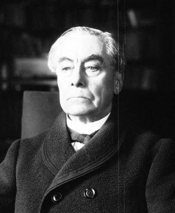 French geographer and economist Pierre Émile Levasseur (1828-1911).